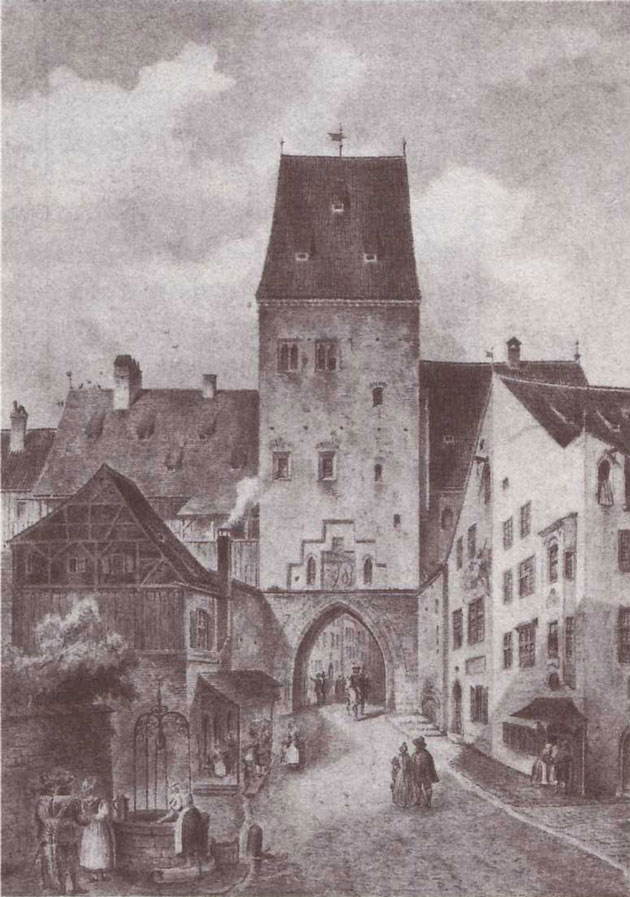 Hinteres Schwabinger Tor in Munich, also called Wilbrechtsturm